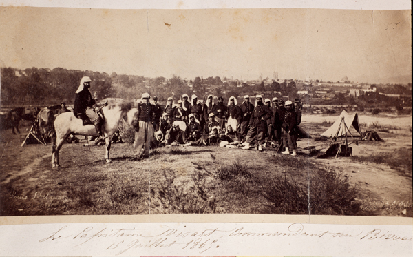 Ref.: PMa_B_476_Brussel; Kapitein Visart, kampcommandant te Morelia, 1865, zww foto; photo: Paul M.R.Maeyaert; Legermuseum; Brussel; Belgium; Europe|Belgium|Brussel; Europe|Belgium|Bruxelles; ; © Paul M.R. Maeyaert